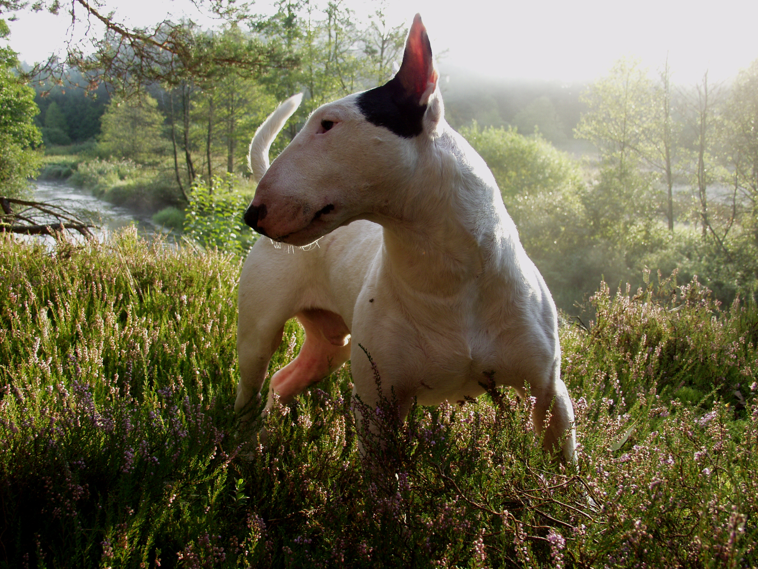 A white bull terrier